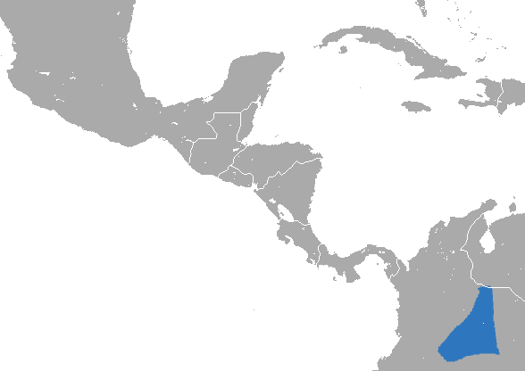 Brumback's Night Monkey (Aotus brumbacki) range